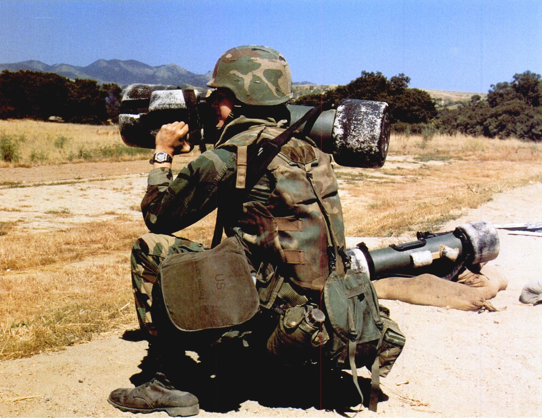 MPIM SRAW fielded